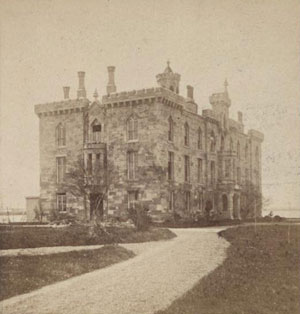 Image of Renwick Smallpox Hospital